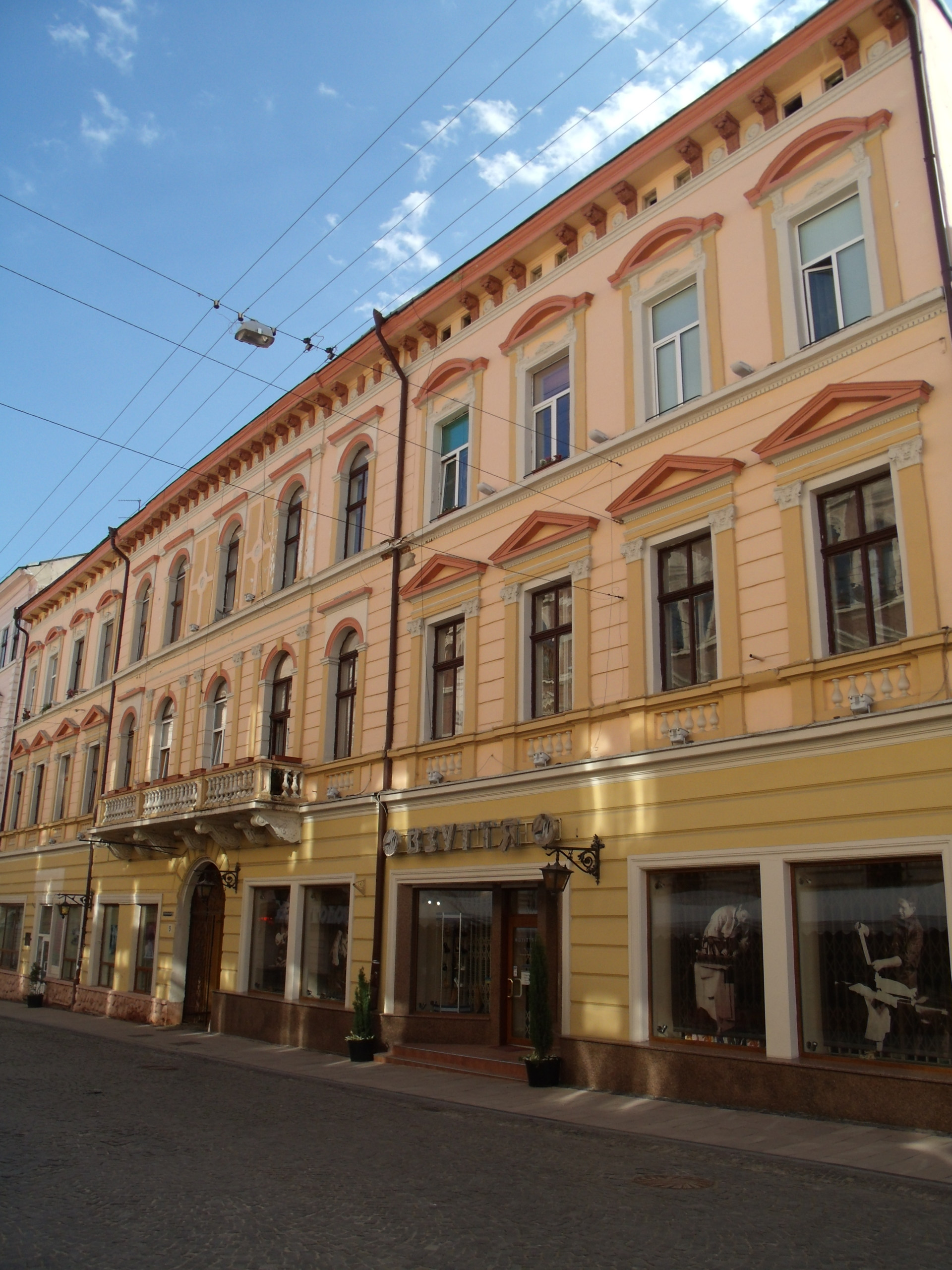 Chernivtsi, Kobylianska house 9